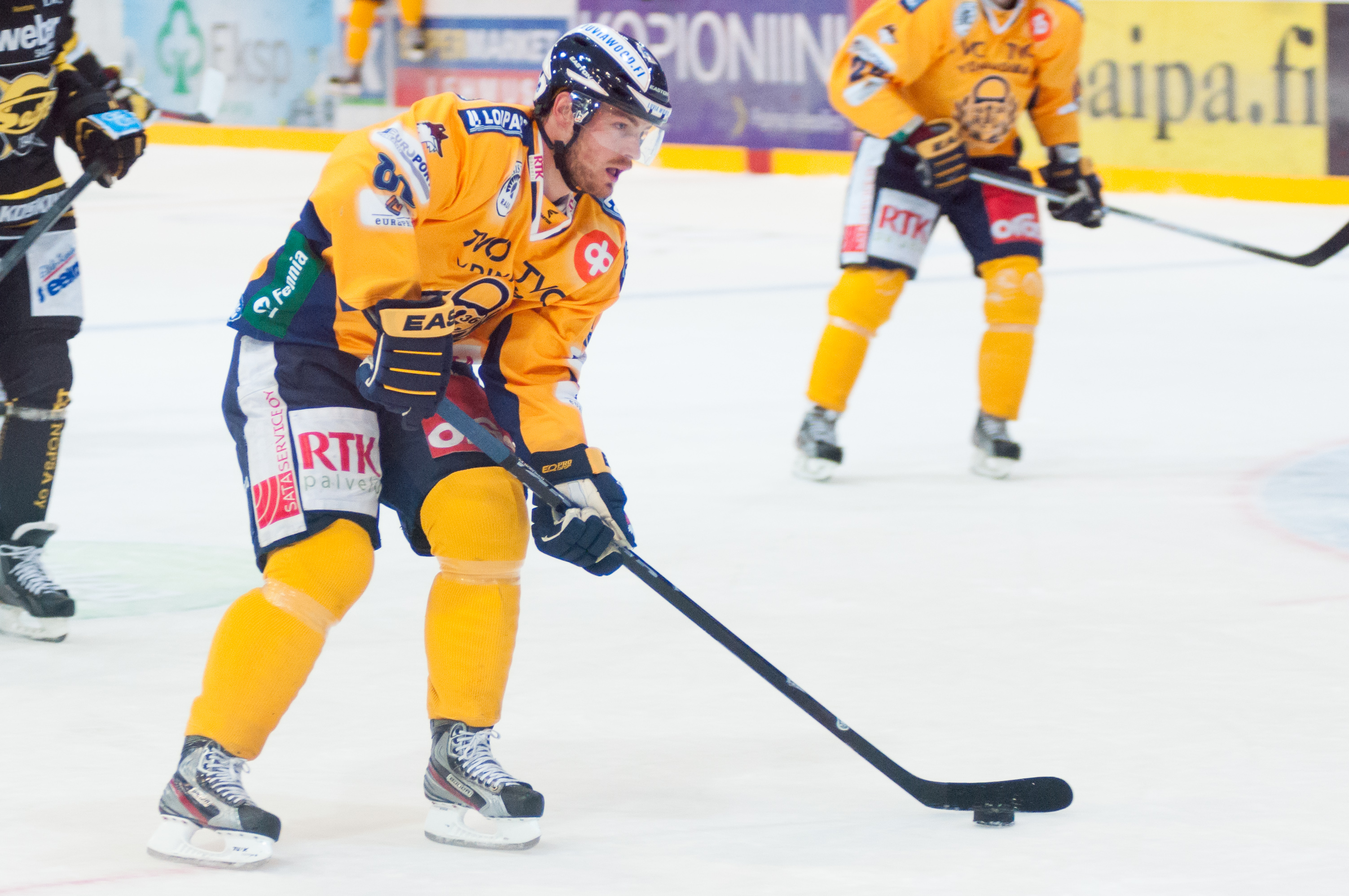 Danish ice hockey right winger Mikkel Bødker playing for Rauman Lukko against SaiPa Lappeenranta in Lappeenranta, Finland.